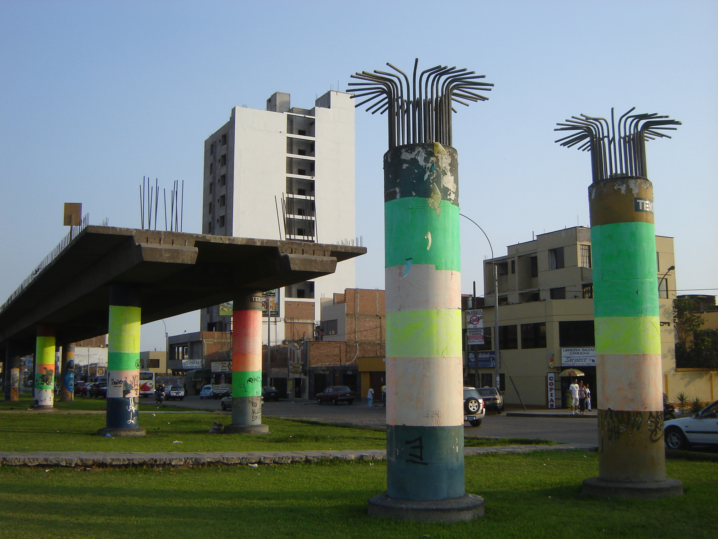 Lima Metro elevated viaduct remained unfinished for 20 years until its construction resumed in 2010.